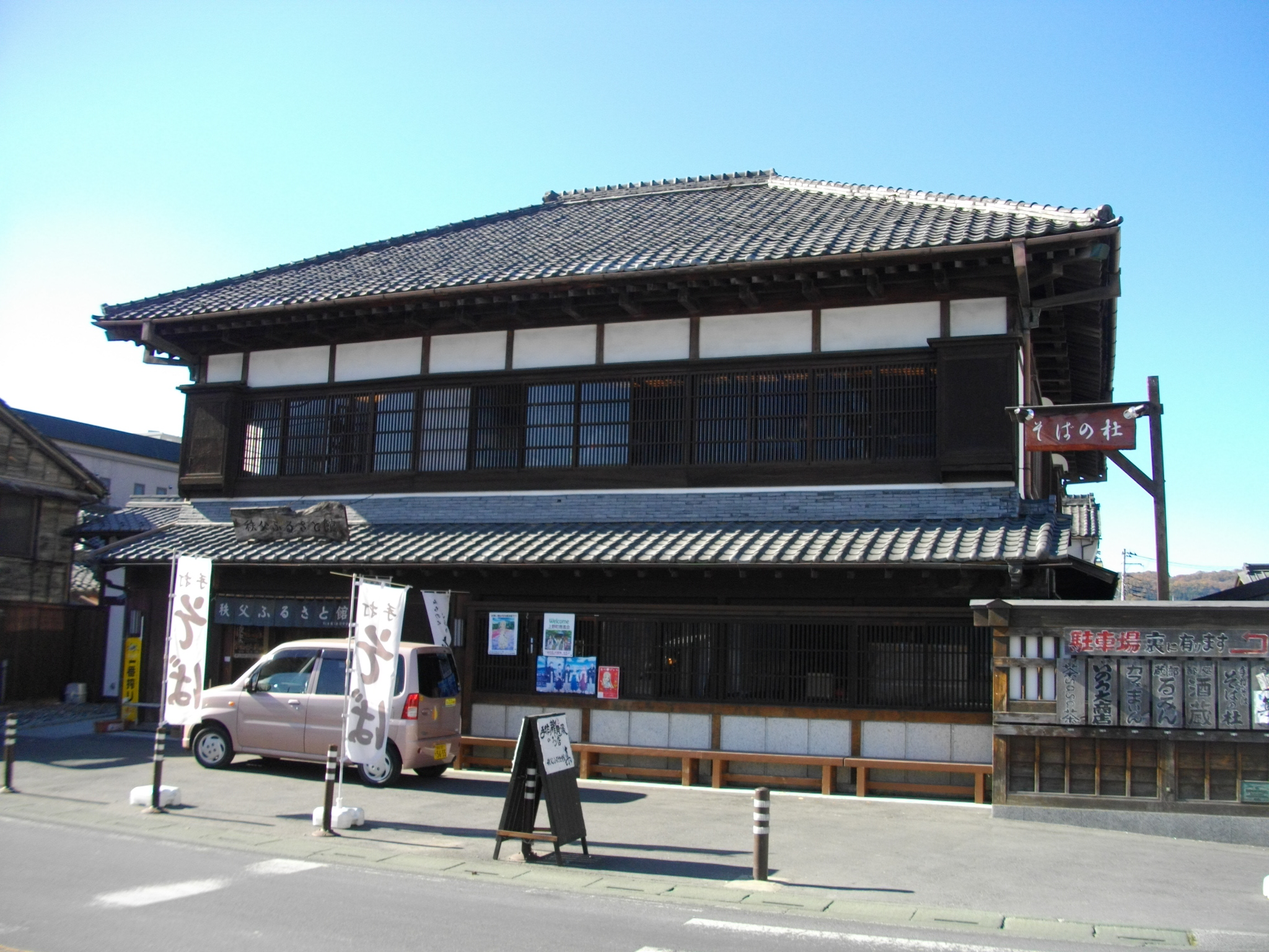 Chichibu Furusato Kan